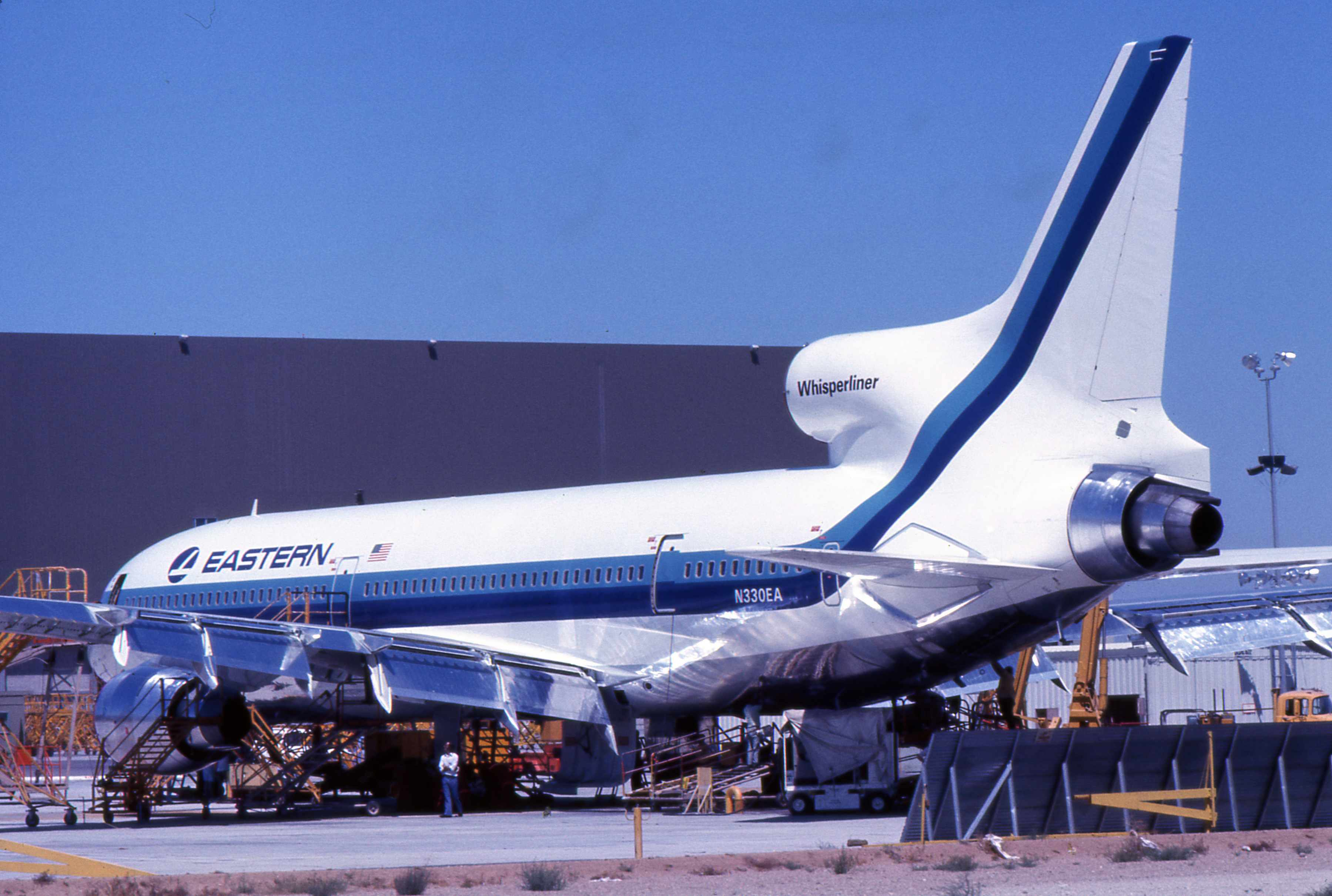 Eastern Air Lines Lockheed TriStar outside the Lockheed production plant at Palmdale.